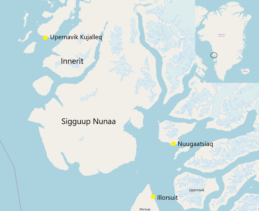 Sigguup Nunaa peninsula map, comparison with map of Greenland